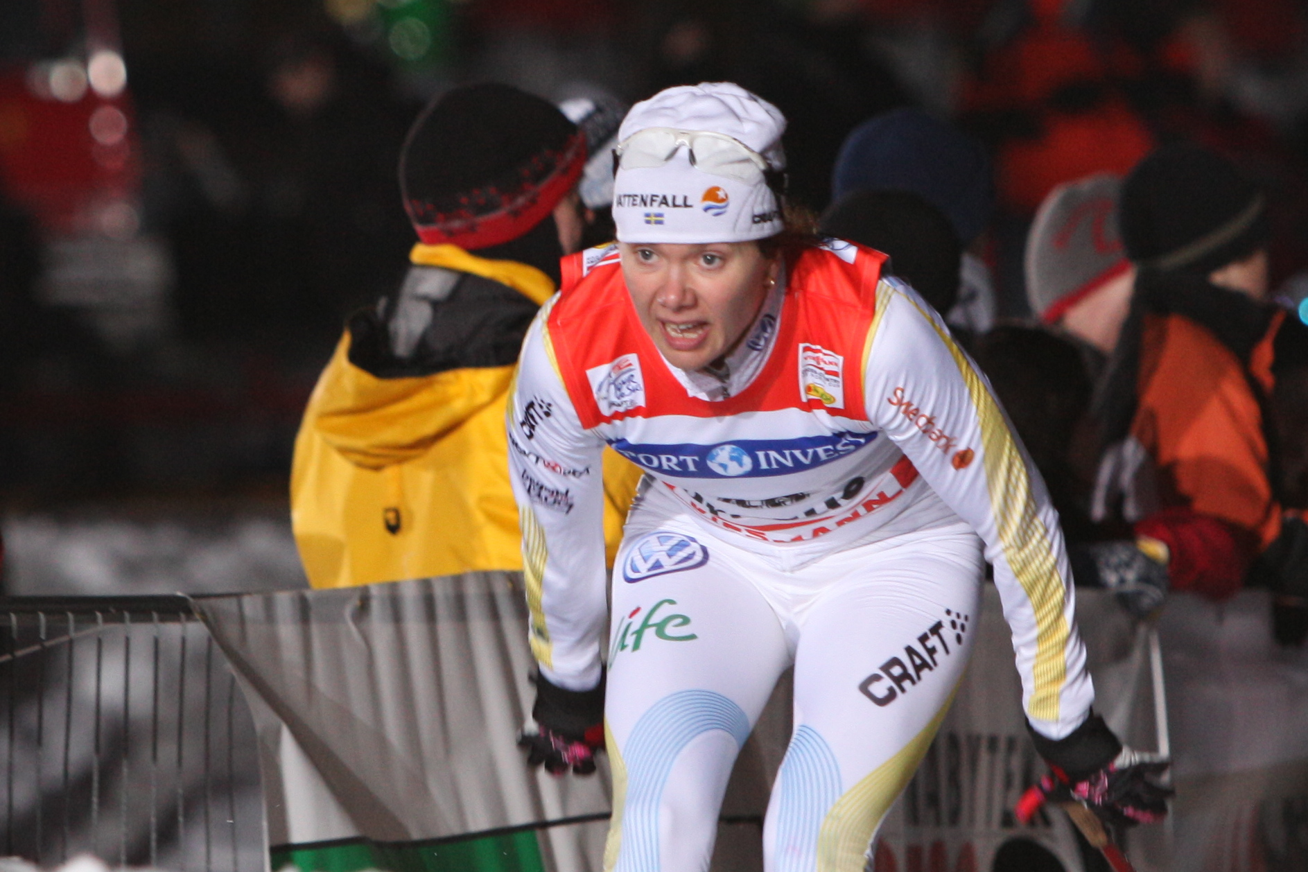 Sara Lindborg competes at Ski Sprint Praha in 2010